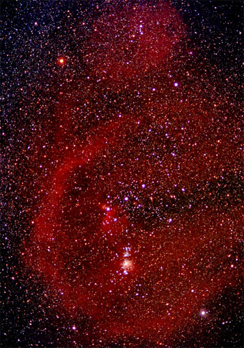 Barnard's Loop (catalogue designation Sh 2-276) is an emission nebula in the constellation of Orion which can be seen on the photo as a diffuse red semi-circle. In this image the faint glowing hydrogen clouds spanning the whole constellation are visible. The photo was taken using the following equipement: Telescope: Nikon AF 85mm f/1,8 Film: Kodak Royal Gold 400 Exposure: 10 min at f/2,8 Processing: Removing Vignetting and Unsharp Masking